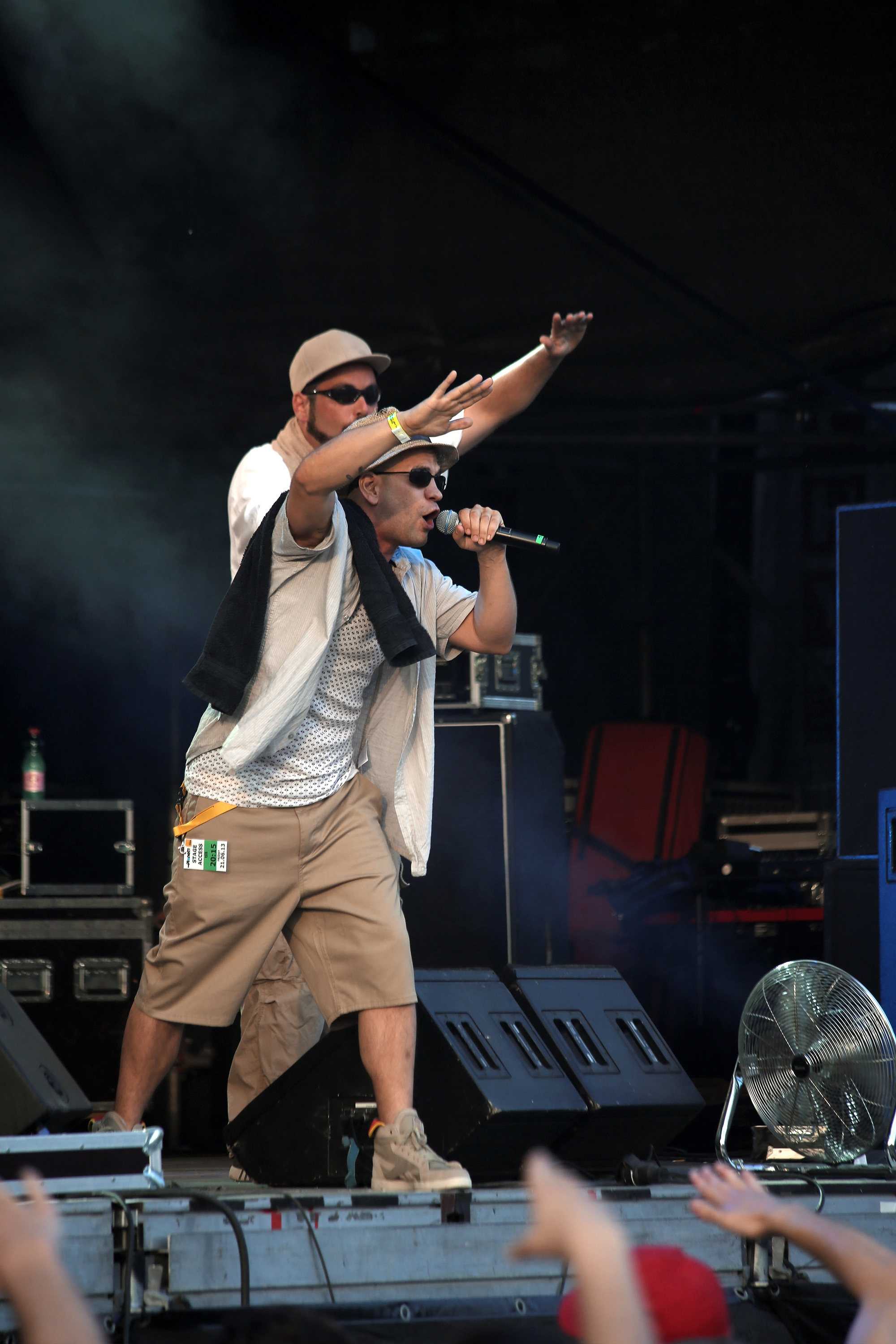 A.geh Wirklich? - Donauinselfest 2013 in Vienna, Austria